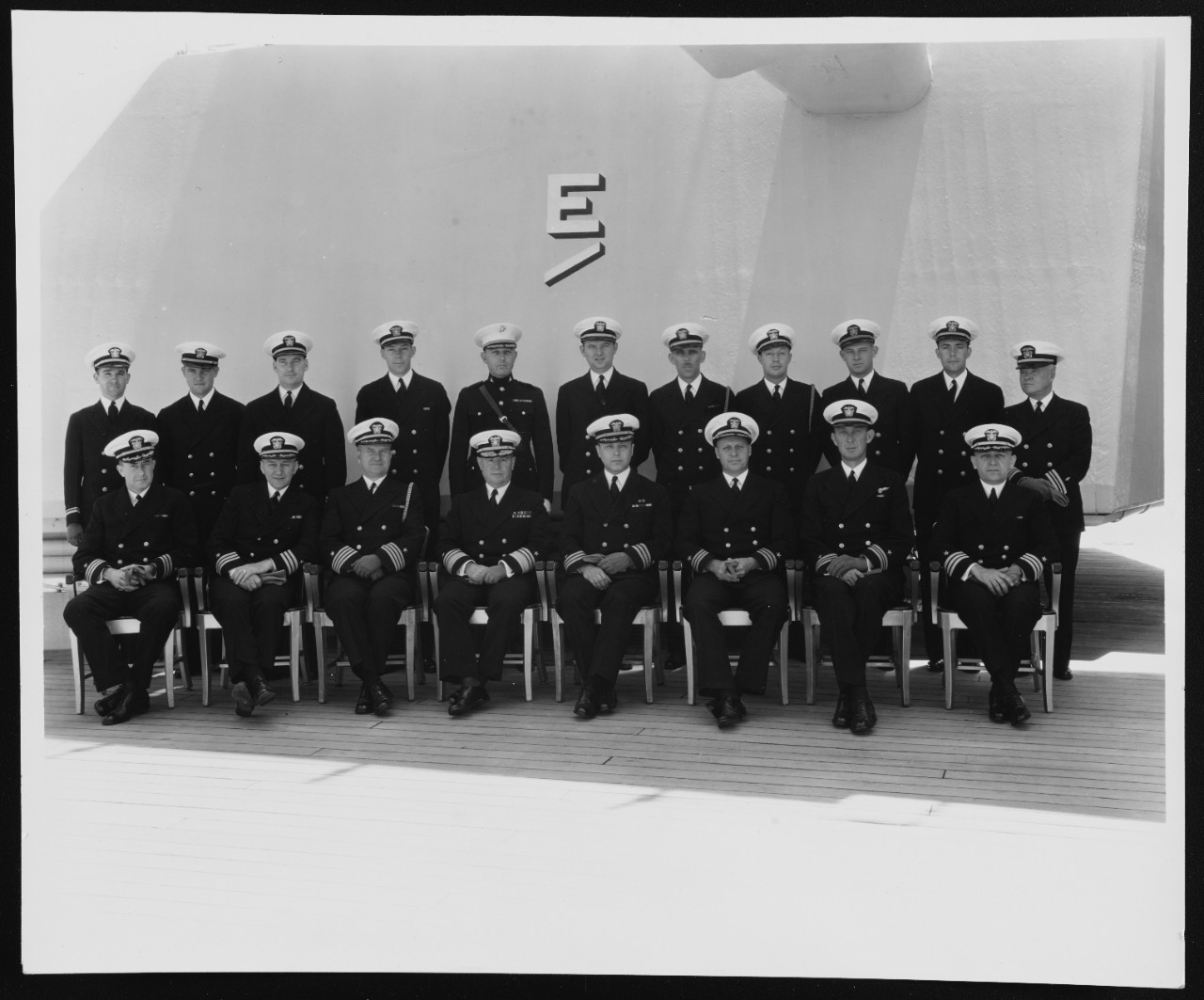 Vice Admiral John W. Greenslade, USN, Commander, from 29 January 1938 to 20 May 1939. Flagship: WEST VIRGINIA (BB-48). (Seated) L to R: Commander D. Browne, Damage Control Officer; Commander Bernard H. Bieri, Operations Officers; Captain William L. Calhoun, Chief of Staff; Admiral Greenslade; Commander Lybrand P. Smith, Engineer Officer; Commander Frank H. Dean, Gunnery Officer; Lieutenant Commander Norman L. Hitchcock, Aviation Officer; Commander Owen E. Grimm, Relief for Engineering Officer; (Standing): Lieutenant Junior Grade W.F. Cassidy, Communications; Ensign R. S. Thompson Jr, Communications; Lieutenant Francis X. Forest, Engineer Officer; Lieutenant Leroy V. Honsinger, Engineer Officer; Lieutenant Colonel James W. Webb, USMC, Division Marine Officer; Lieutenant Carl L. Steiner, Communications & Radio Officer; Lieutenant Commander William K. Mendenhall Jr, Aide & Flag Secretary; Lieutenant Richard D. Zern, Aide and Flag Lieutenant; Ensign Kear, Communications; Ensign Hewitt, Communications; Lieutenant Commander Sidney Fowler Johnston, Aviation Medical Officer